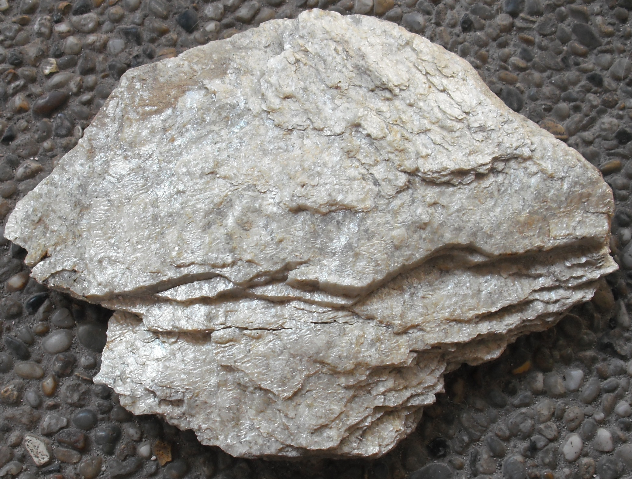 Leucophyllite from Sopronbánfalva in Sopron, Hungary.